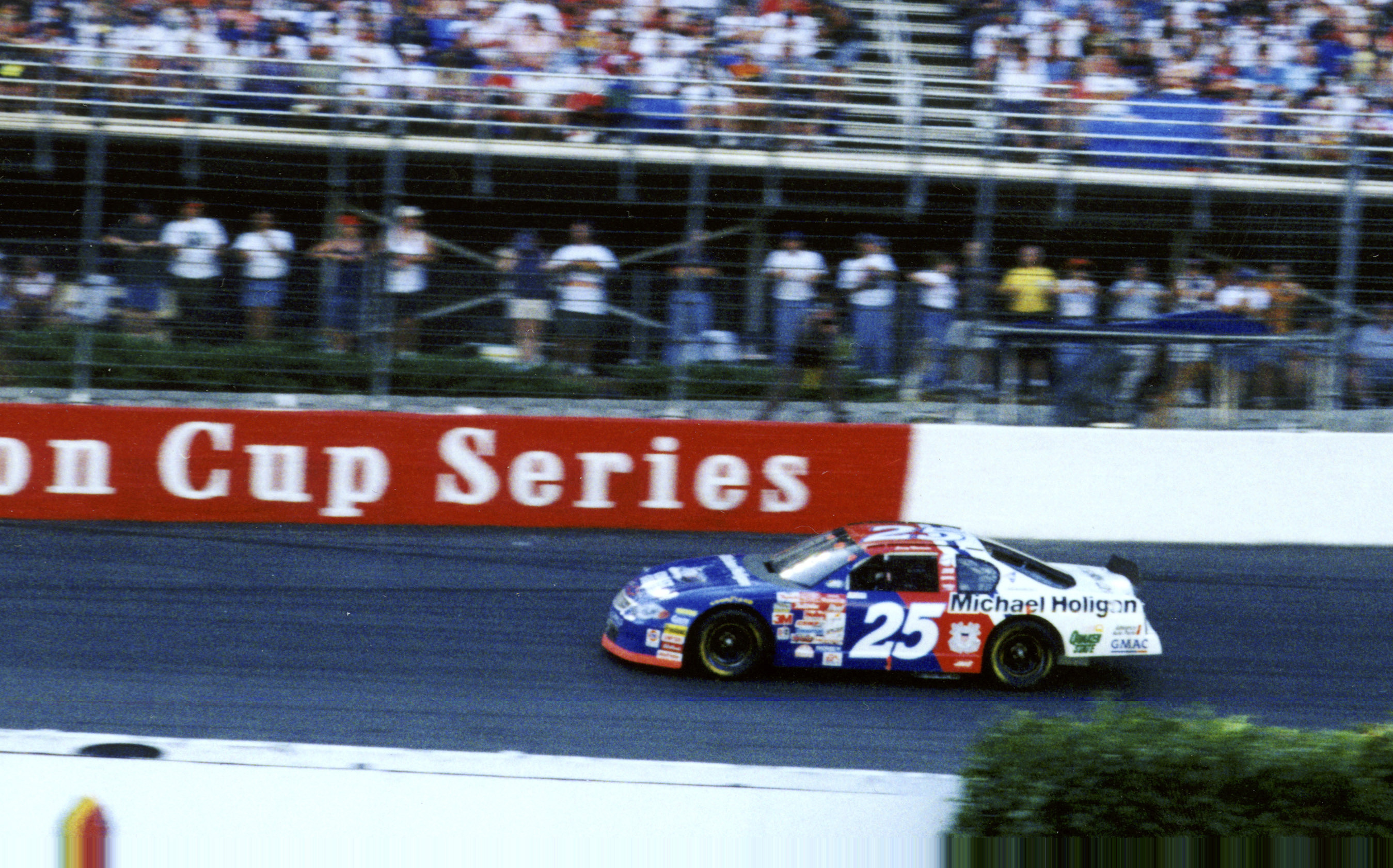 Charlotte, North Carolina (May 28)--The Coast Guard Nascar car, driven by Jerry Nadeau, makes its way around turn three at the Charlotte Motor Speedway during the Coca-Cola 600 race May 28. USCG photo by PA3 Kimberly Wilder Slug 000528-A-7305W-011 (FR) Location CHARLOTTE, North Carolina United States Special Instructions 000528-A-7305W-011 (FOR RELEASE) Object Name COAST GUARD NASCAR (FOR RELEASE) Credit U.S. COAST GUARD DIGITAL Server Name cgvi.uscg.mil:80 PLS ImageID 10994 Picture Desk ImageID 008HE Committed Yes (Platter 2A) Database Photo